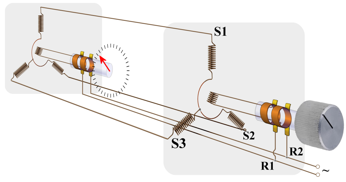 Principle of sychro system in indicate mode